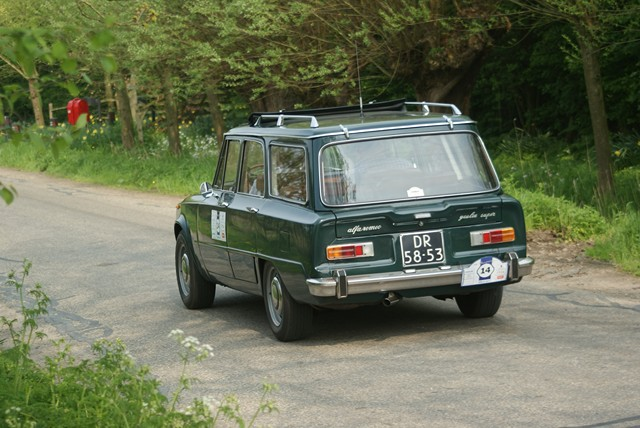 DR-58-53 Hoefslag Rally 2011 100 made by Colli